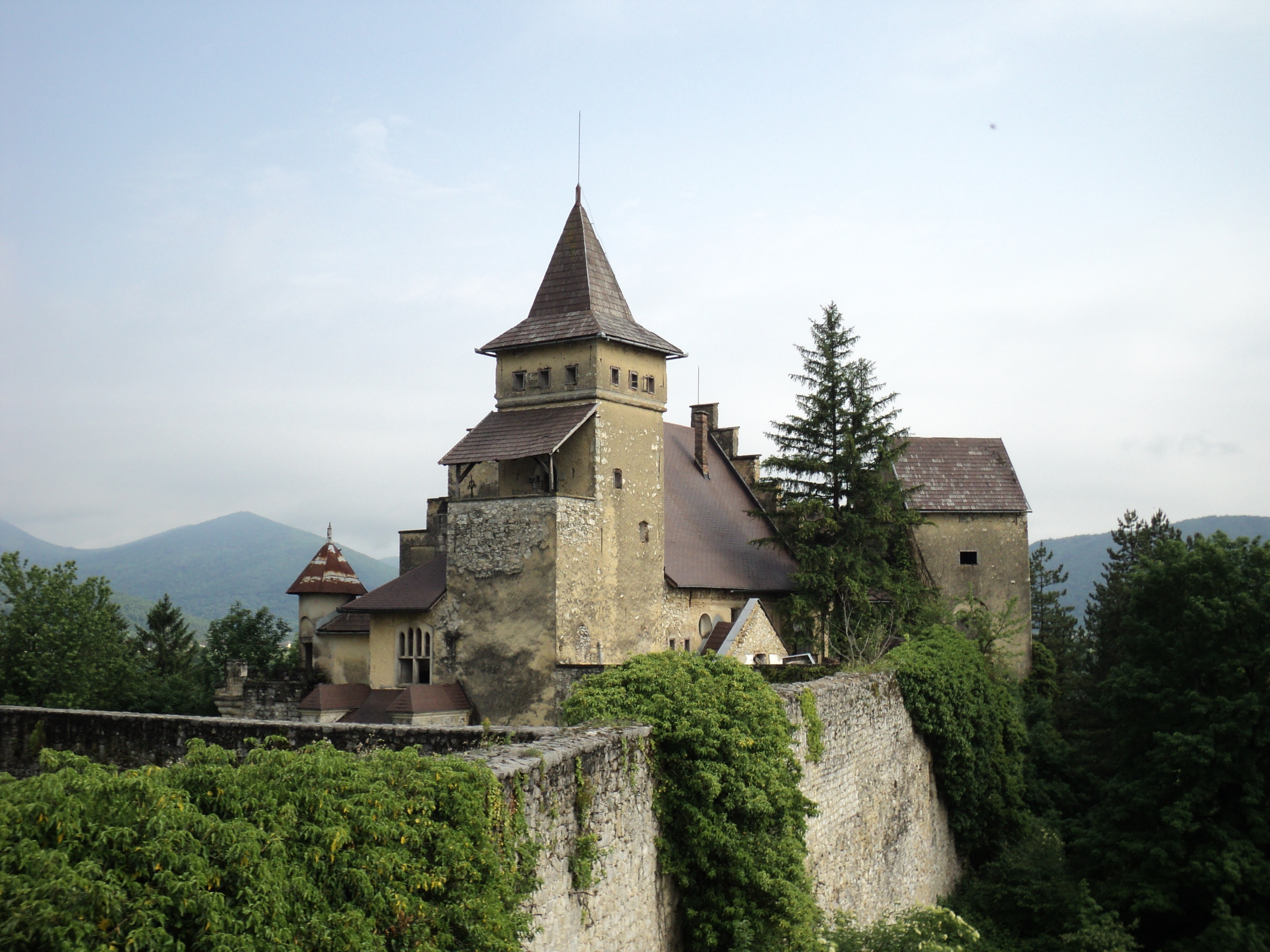 Ostrožac castle near Cazin.